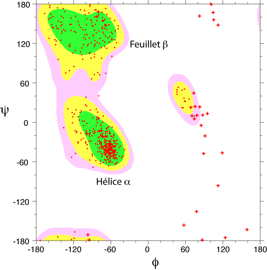 Ramachandran diagram of a protein backbone